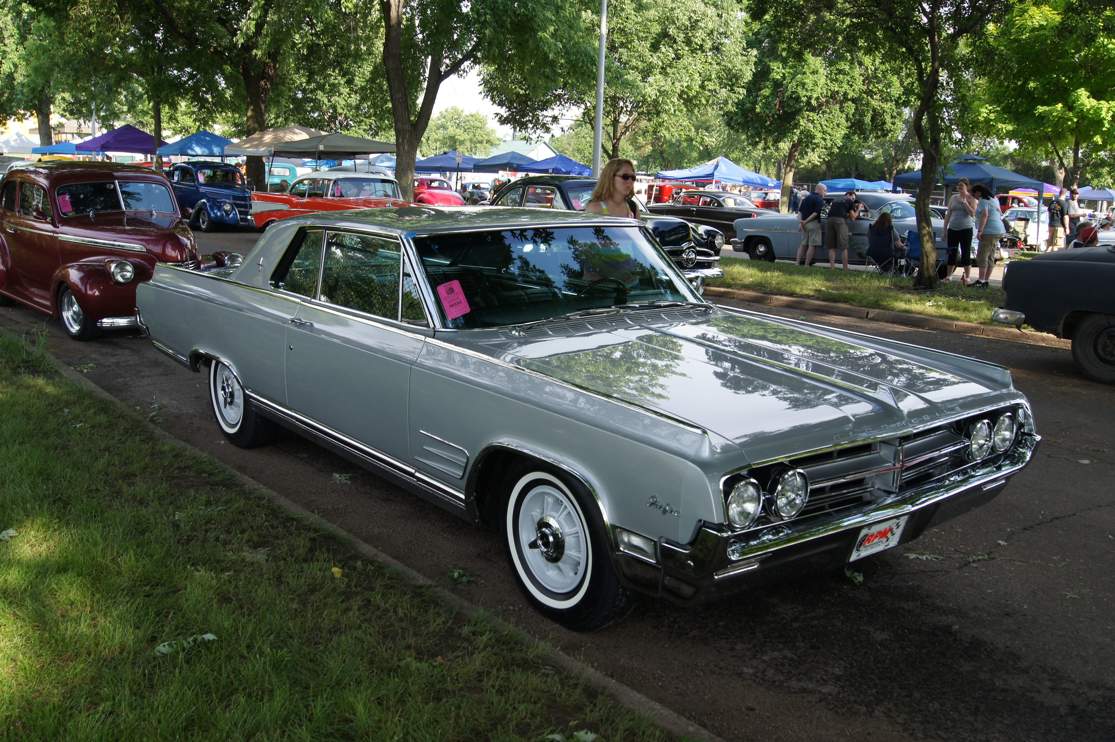 MSRA “BACK TO THE 50′s” 40th ANNIVERSARY June 21-23, 2013 State Fairgrounds St. Paul Minnesota More Car Pictures